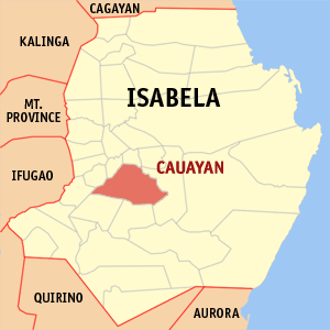 Map of Isabela showing the location of Cauayan